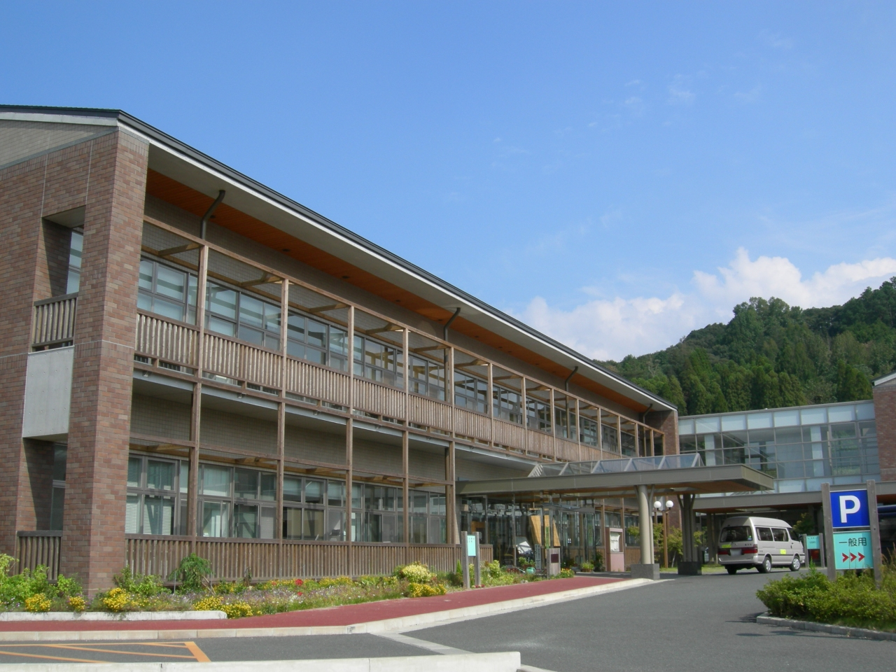 Yame city office Kurogi synthesis branch (Former Kurogi Town Office) in Fukuoka Prefecture, Japan